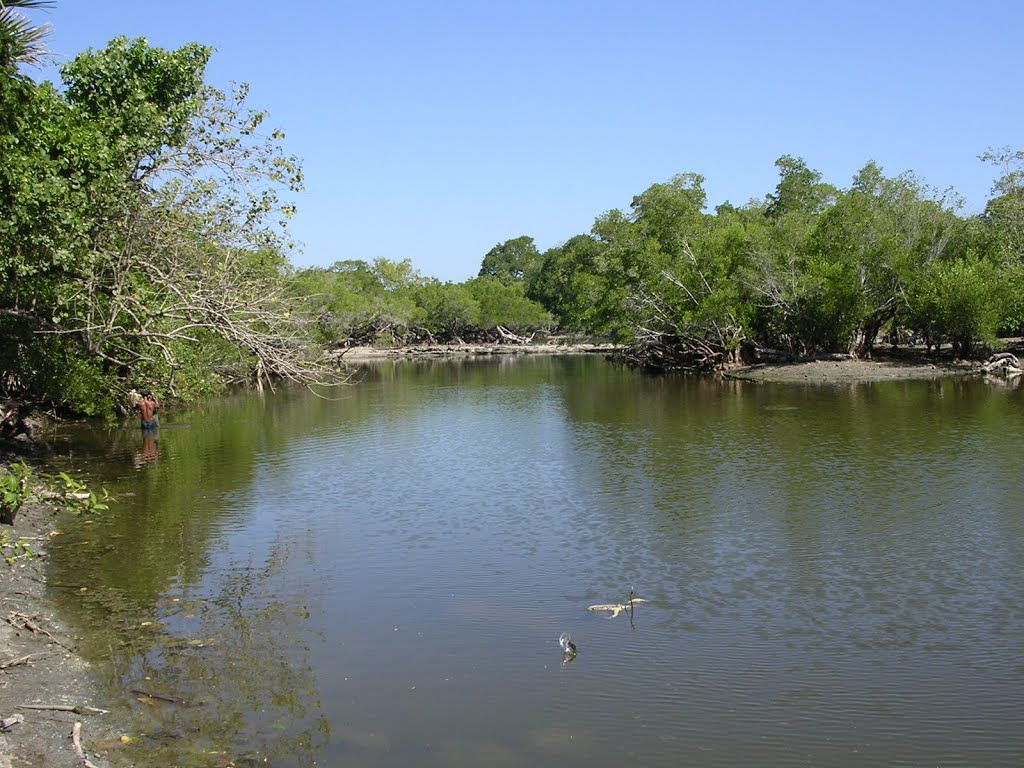 Mangroven am Abfluss des Be Malae über eine Lagune, Nordufer, Suco Aidabaleten, Subdistrikt Atabae